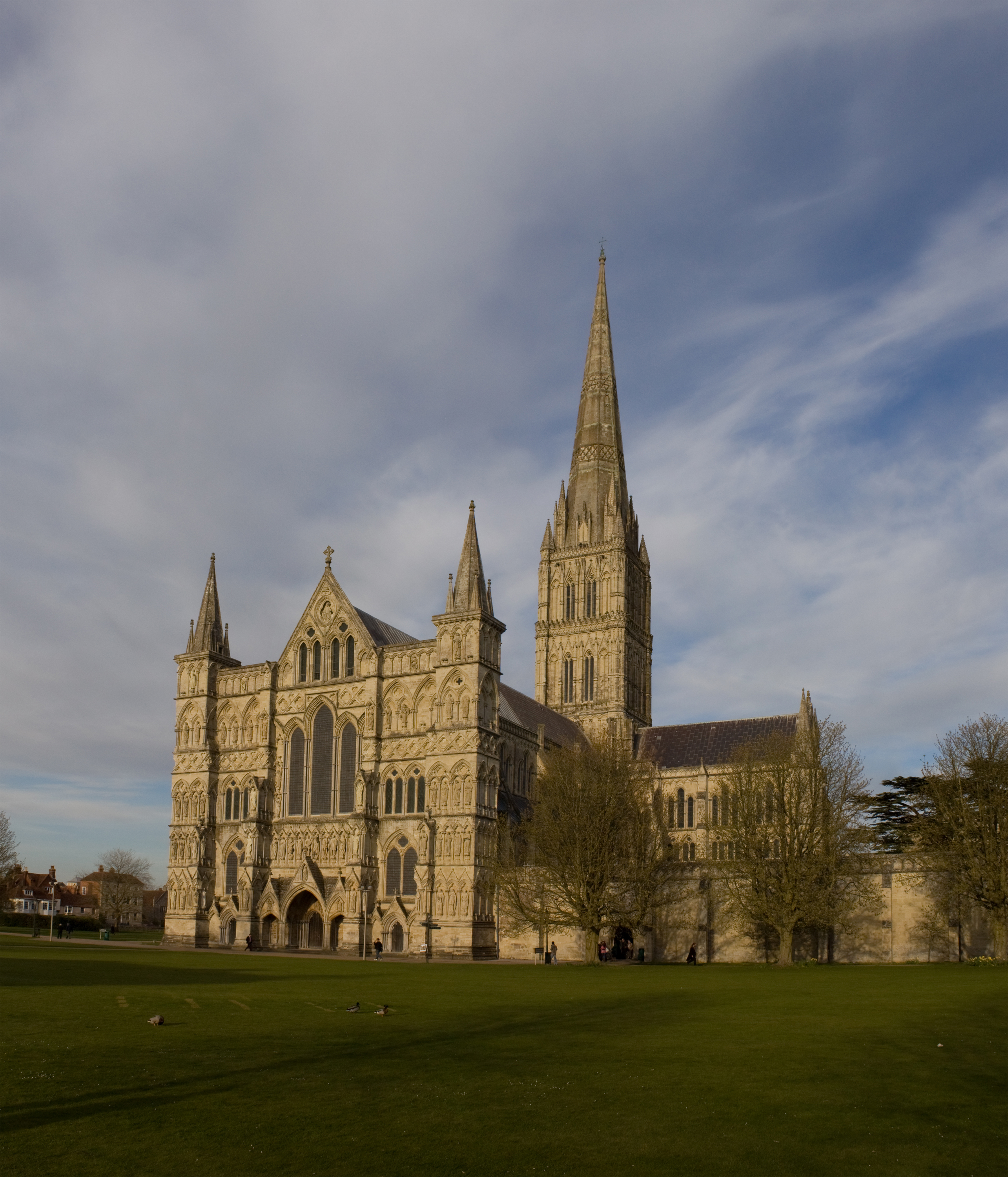 Cathedral Church of St Mary